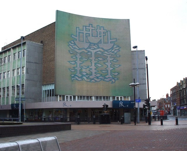 King Edward Street - Jameson Street Junction With the BHS building "endpiece" in full view. The photograph was taken from the pedestrianised part of Jameson Street. The row of bollards mark the end of the pedestrian area.